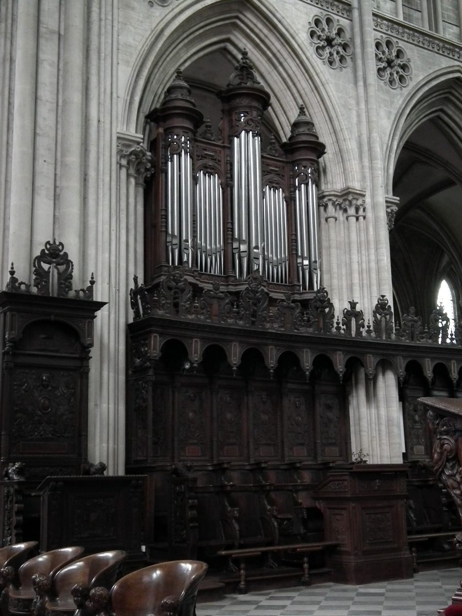 The interior of Cathédrale Notre-Dame, Bayeux, France